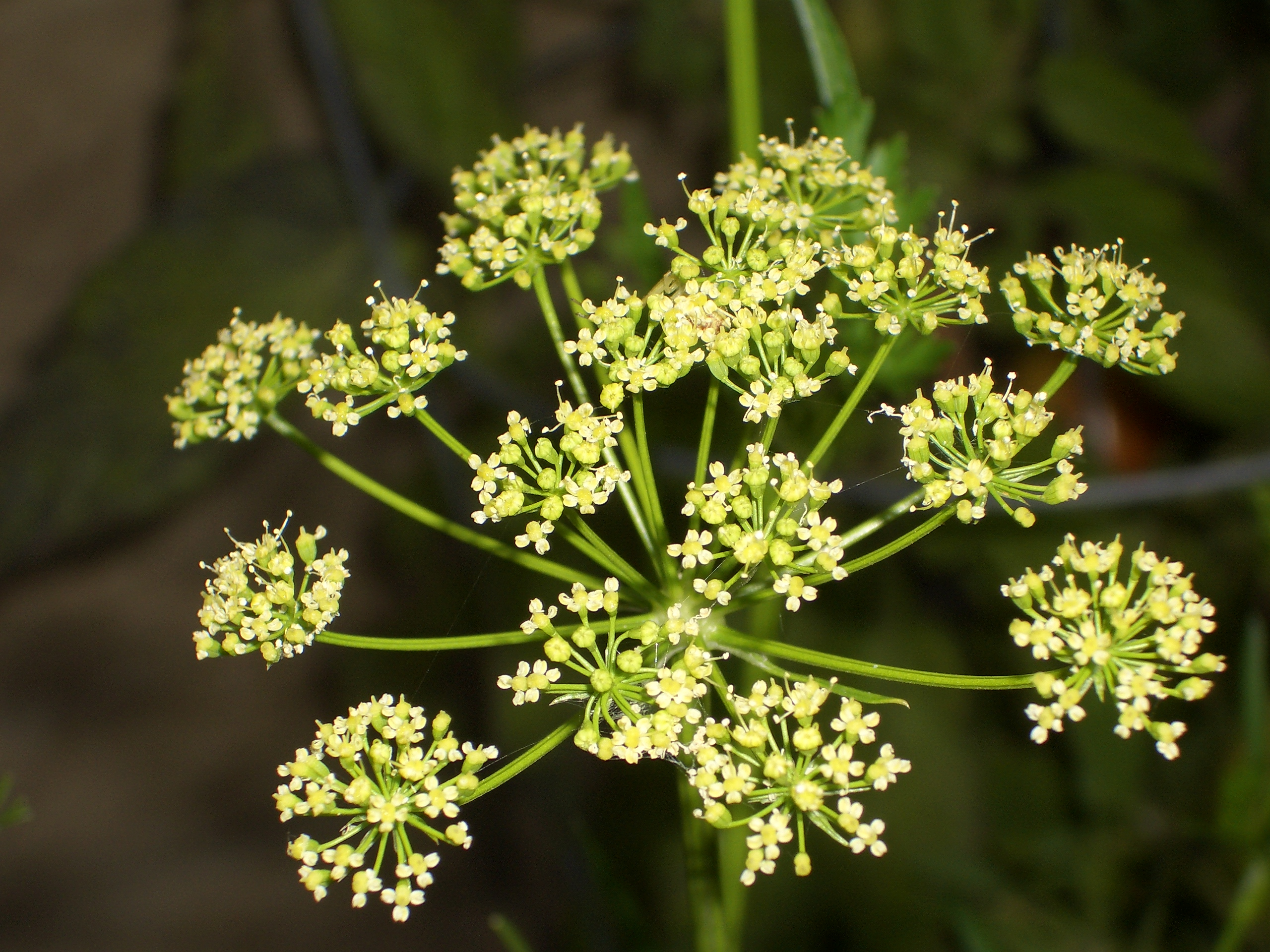 Flower of an Italian (flat leaf) parsley (Petroselinum neapolitanum) plant.